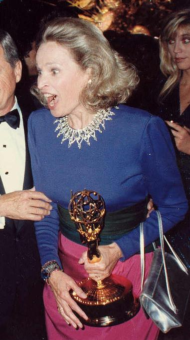 Actress Bonnie Bartlett, 39th Emmy Awards - Governor's Ball - Stars of St. Elsewhere - Sept. 1987